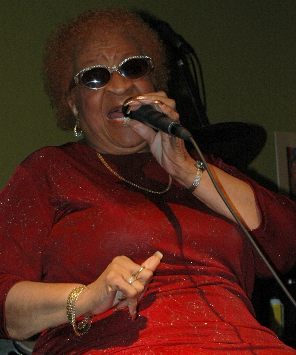 Alberta Adams performing at Sushi Blues in Hollywood, FL.